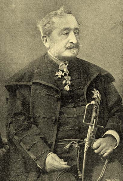 László Szőgyény-Marich de Magyar-Szőgyén et Szolgaegyház, the Senior (1806–1893), Hungarian politician, comes of the county of Fejér, member of the Hungarian Academy of Sciences.